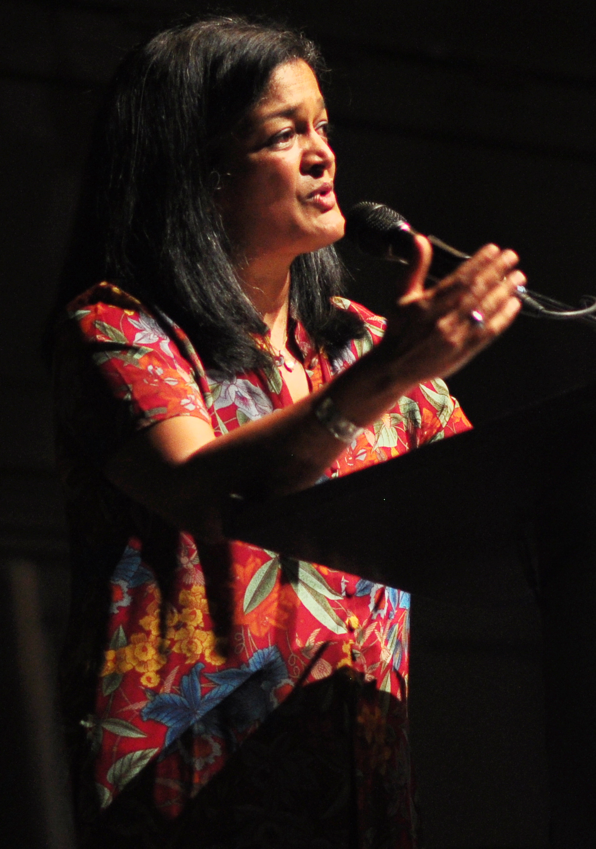 Pramila Jayapal, Washington State Senator (District 37) speaking at an event for the 150th anniversary of The Nation at Town Hall, Seattle, Washington.